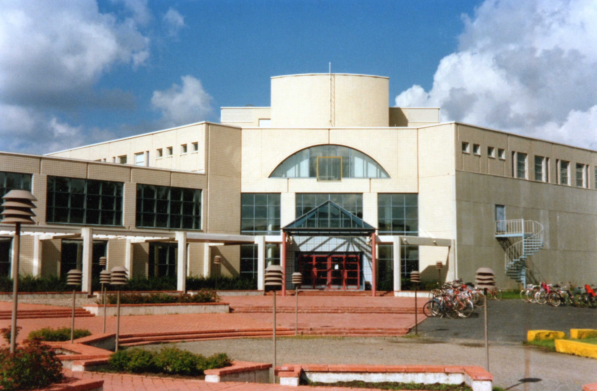 Oulu University Main Library in 1988.